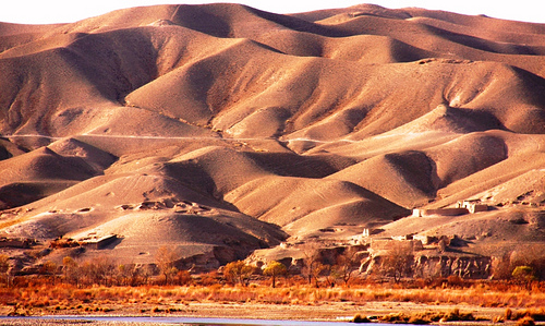 Valley and mountains surrounding Musa Qaleh, 22 January 2010. Photo by Ed Ledford of the United States of America. [note - photo is currently in low-resolution; a higher resolution photo will be added in a few days when we get it from Kabul]